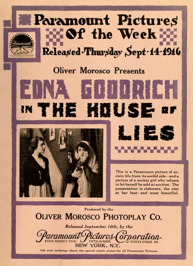 Advertisement in Moving Picture World for the American silent film The House of Lies (1916).